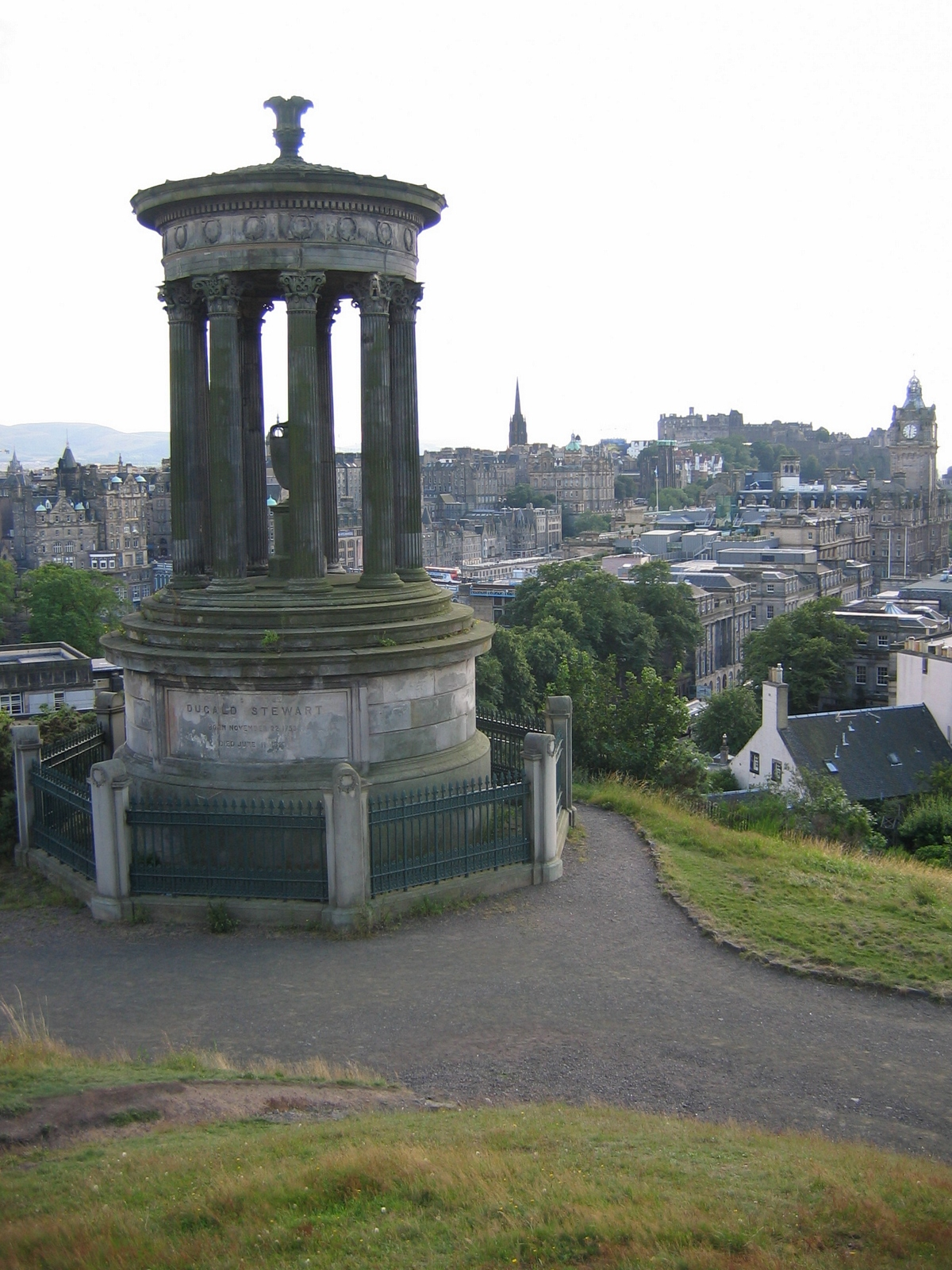 monument of Ducald Stewart at the edge of Calton Hill.